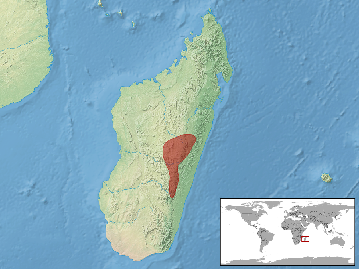 geographic distribution of Trachylepis madagascariensis